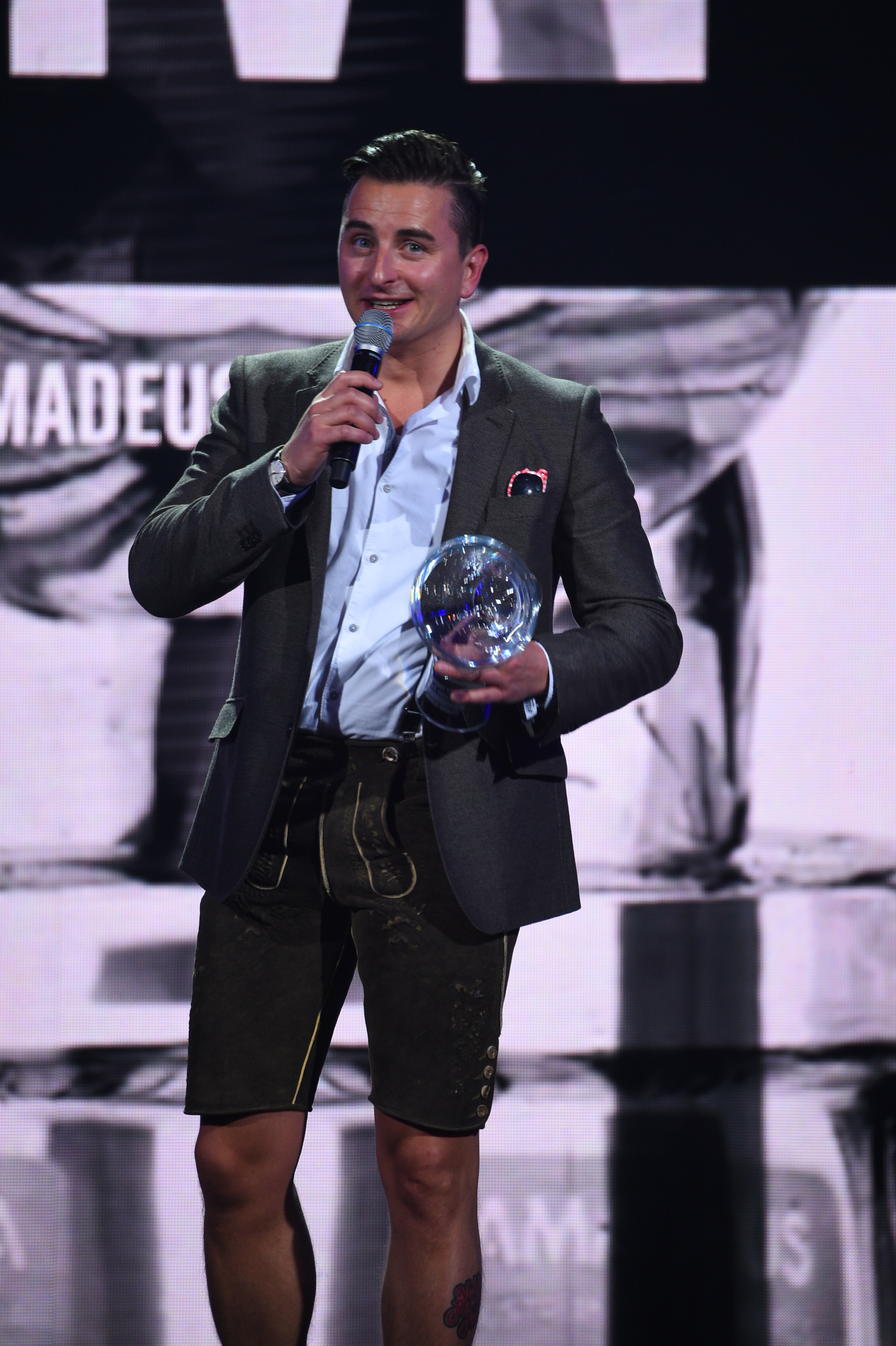 Amadeus Music Awards 2015,Volkstheater, Wien, 29.3.2015, Andreas GABALIER